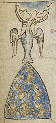 William II Longespée